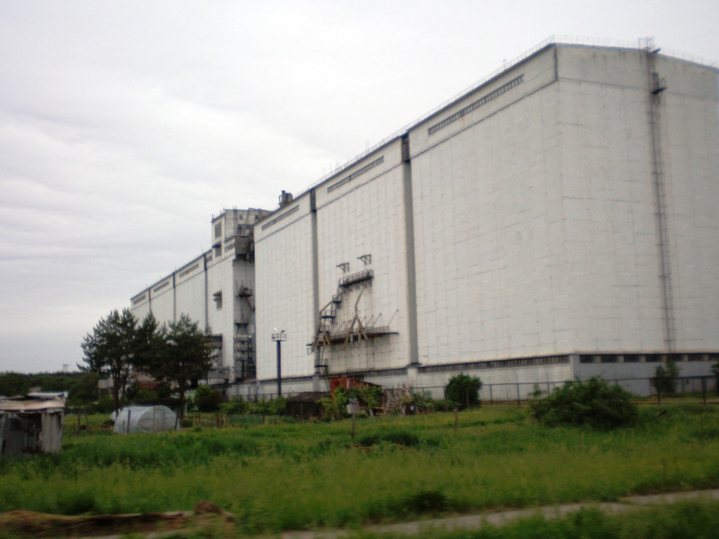 Grains elevator in Jonava, Lithuania